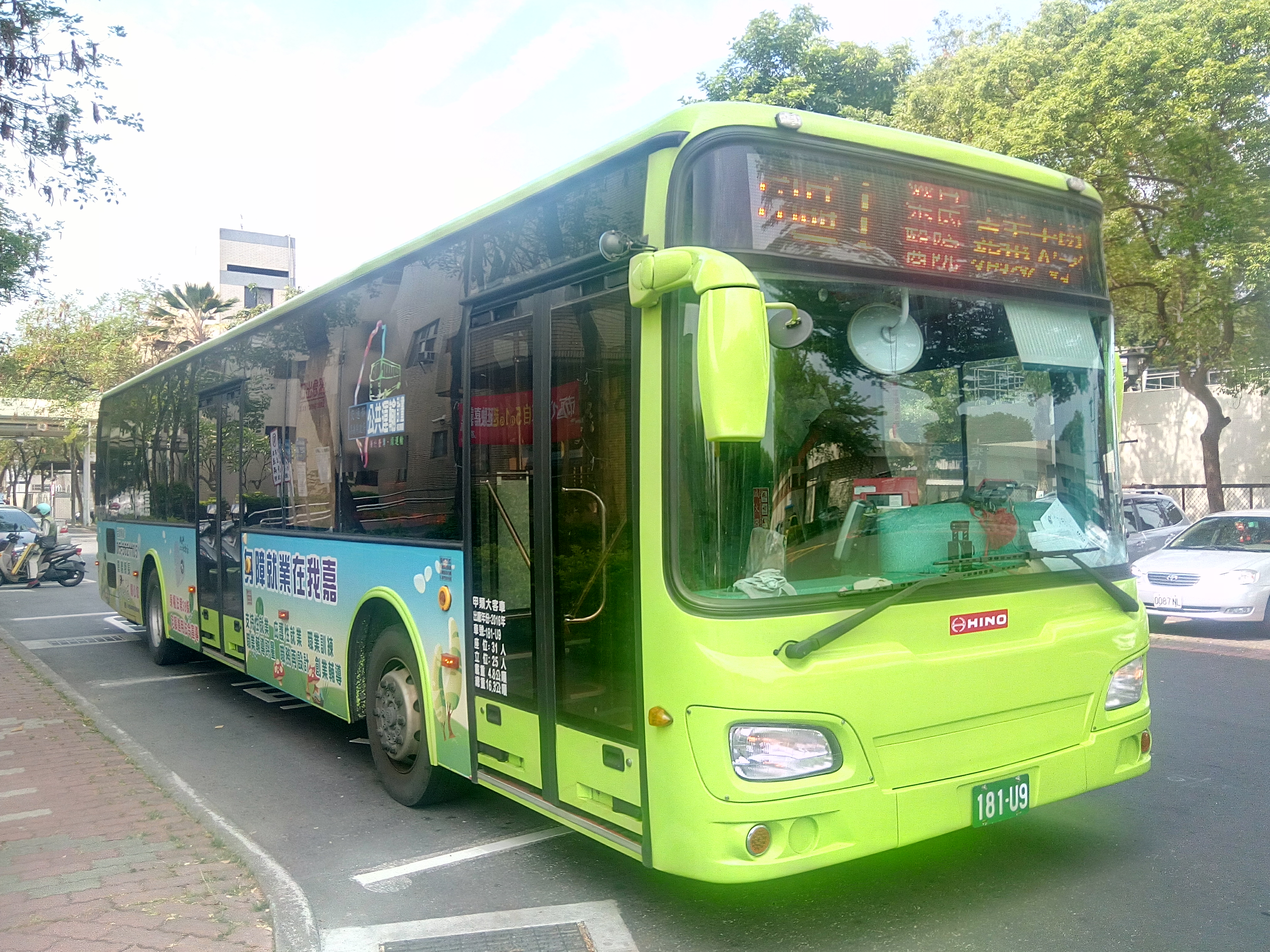 Chiayi City Bus Urban Line 1 (01052018)